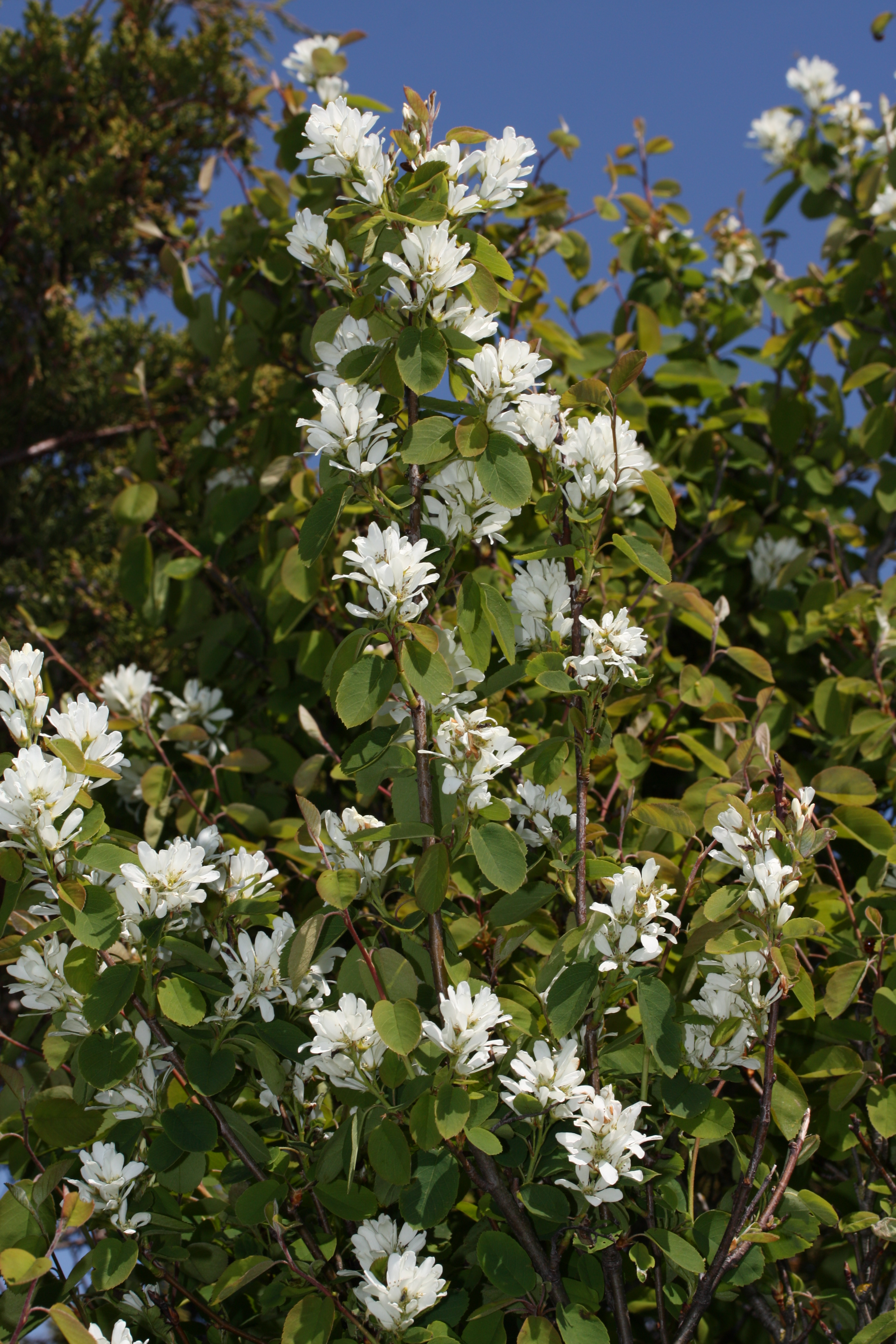 Western Serviceberry, Saskatoon Serviceberry; Amelanchier alnifolia (Nutt.) Nutt. ex M. Roemer var. semiintegrifolia (Hook.) C.L. Hitchc.